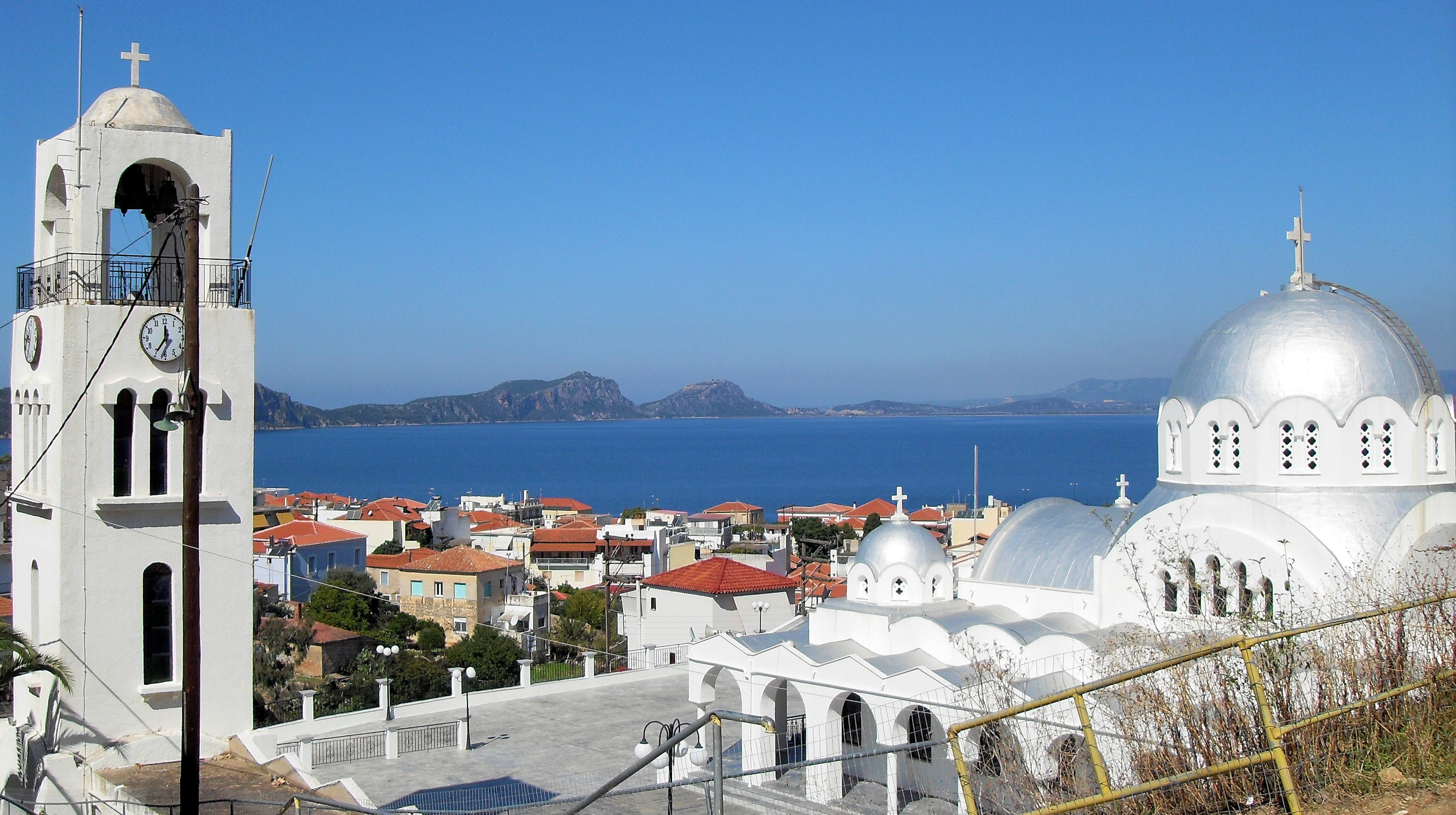 Holy Assumption Church of Pylos